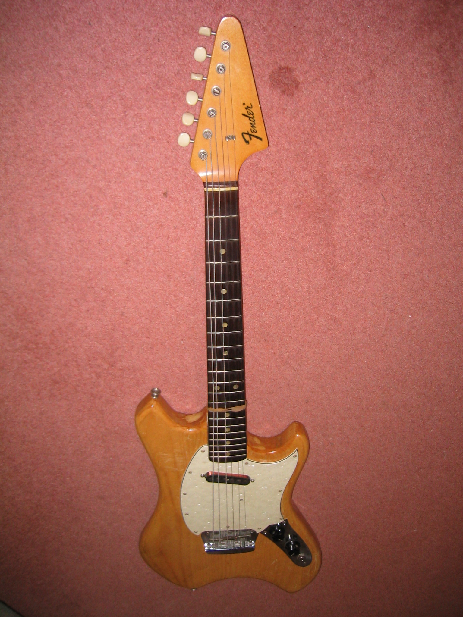 Fender Swinger electric guitar, less original paint and pickup cover.